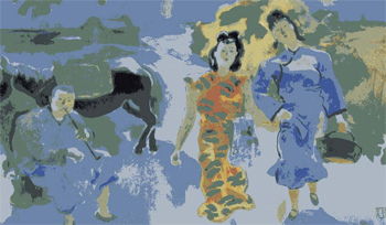 This is a painting by Vietnamese artist Nguyễn Tường Lân who passed away in 1946. According to Vietnam copyright law, his work entered the public domain in 1946+50 = 1996